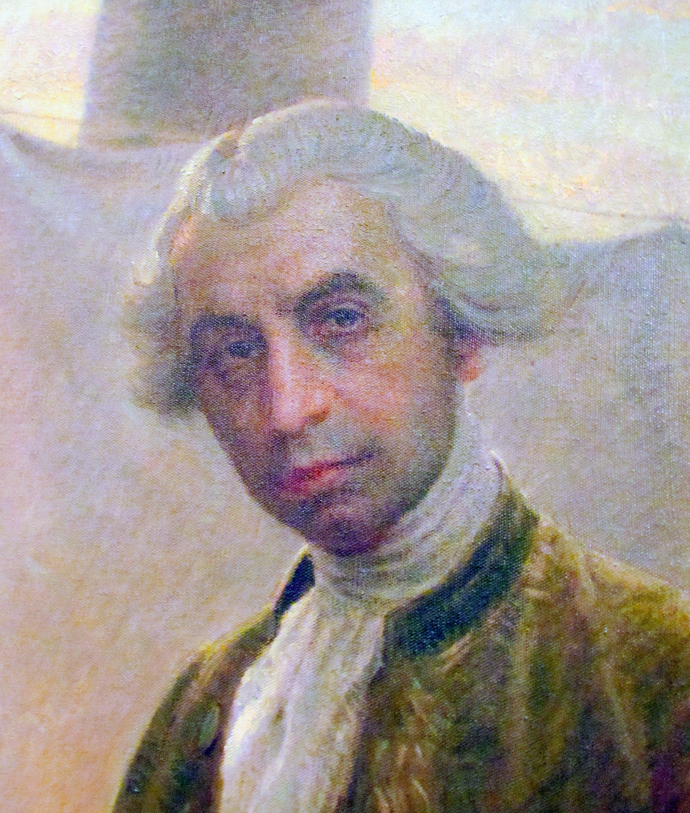 Detail of portrait of Ruđer Bošković commissioned from Vlaho Bukovac by Mihajlo Pupin to give to the National Museum in Belgrade (post-1919) (National Museum of Serbia)